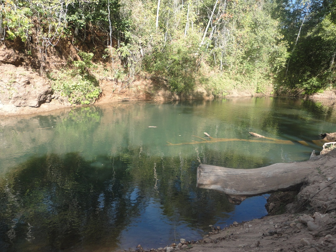 River São Patrício, Ipiranga de Goiás, Goiás, Brazil.